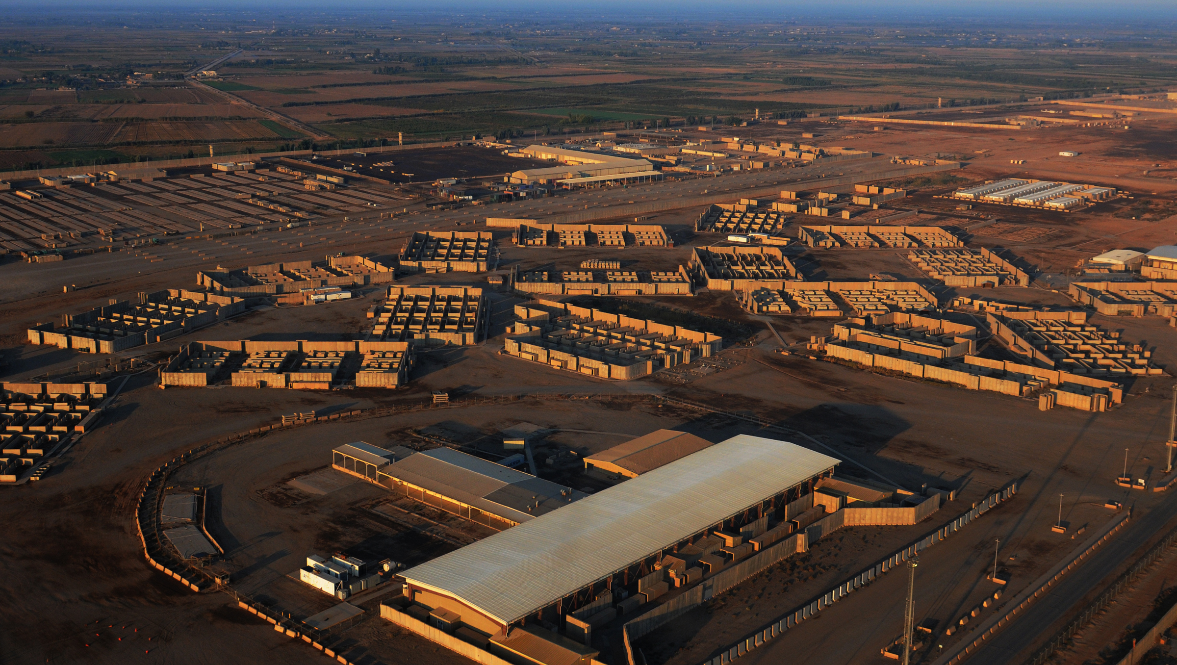 An aerial photo of Joint Base Balad, Iraq, after all U.S. forces departed the base Nov. 8.